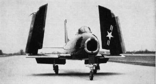 A head-on view of a U.S. Navy North American FJ-2 Fury with its wings folded, ca. 1952. The FJ-2 was a navalized F-86E.